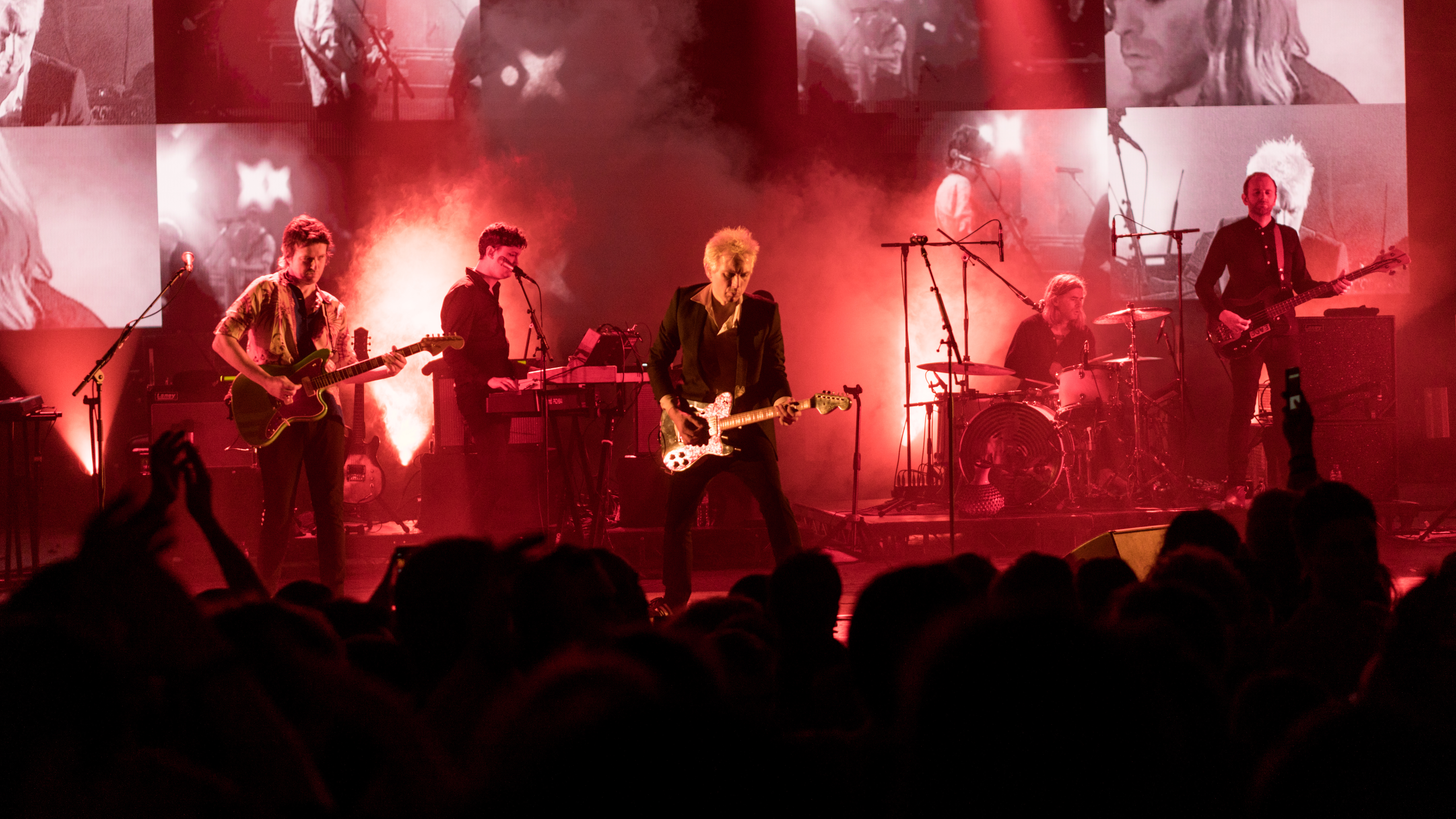 FranzFBrixton240218-47